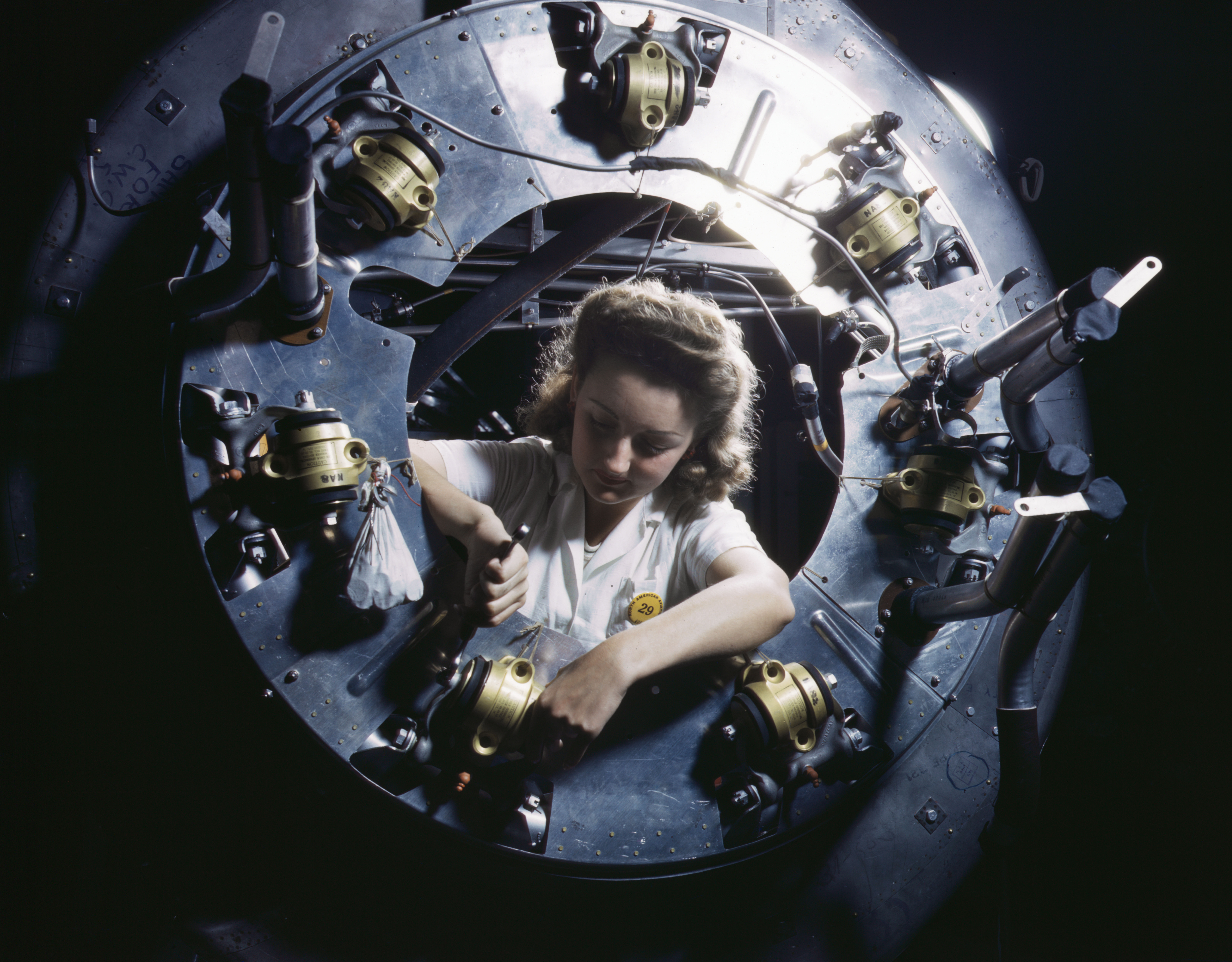 Part of the cowling for one of the motors for a B-25 bomber is assembled in the engine department of North American Aviation's Inglewood, Calif., plant